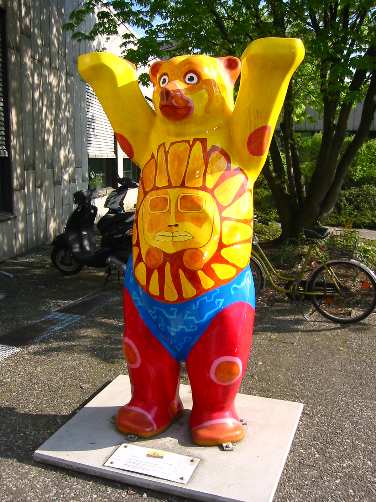 Buddy Bear: name unknown Standort/Location: in front of Ibero Amerikanisches Institut (IAI), Potsdamer Str. 37, Berlin-Tiergarten